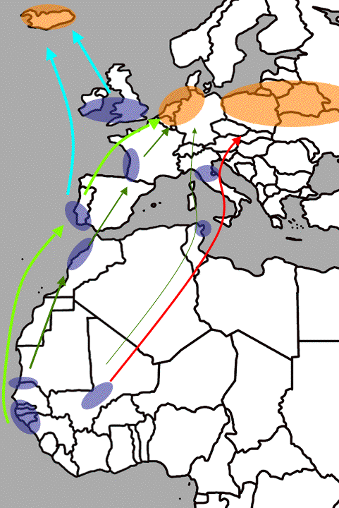 Migratory flyways of Black-tailed Godwits breeding in Europe. Blue shaded areas: staging and wintering, orange: breeding areas. Light blue arrows: migration route of ‚‘Limosa l. islandica‚‘ Green and red arrows: Migration route of ‘Limosa l. limosa‘, with light green = "granivore" flyway, dark green = "carnivore" flyway and red = flyway of part of Eastern-European breeding population.